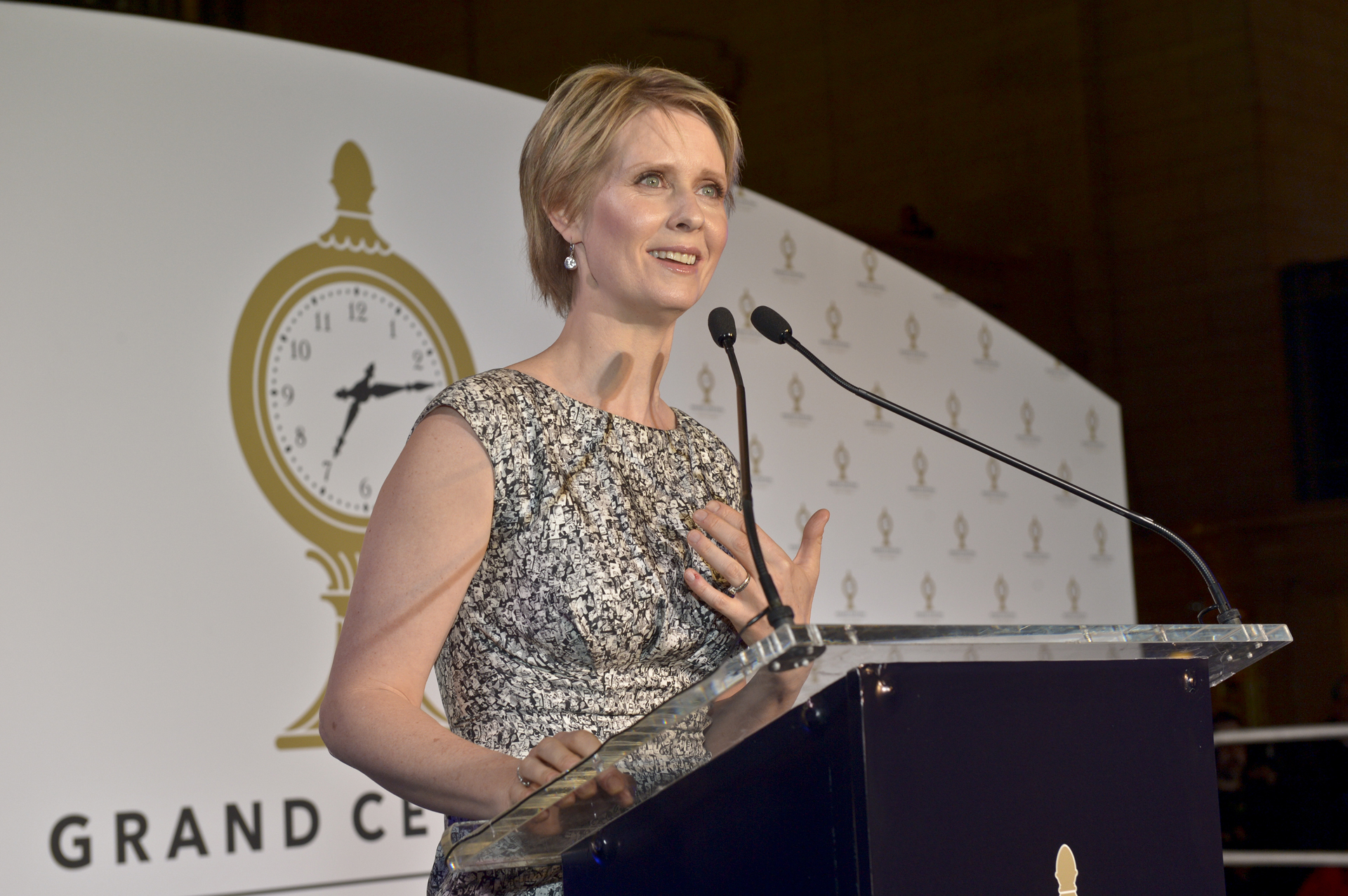 Grand Central Terminal's official 100-year anniversary celebration took place on February 1, 2013. This photo shows TV star and noted New Yorker Cynthia Nixon. Photo: Metropolitan Transportation Authority / Patrick Cashin